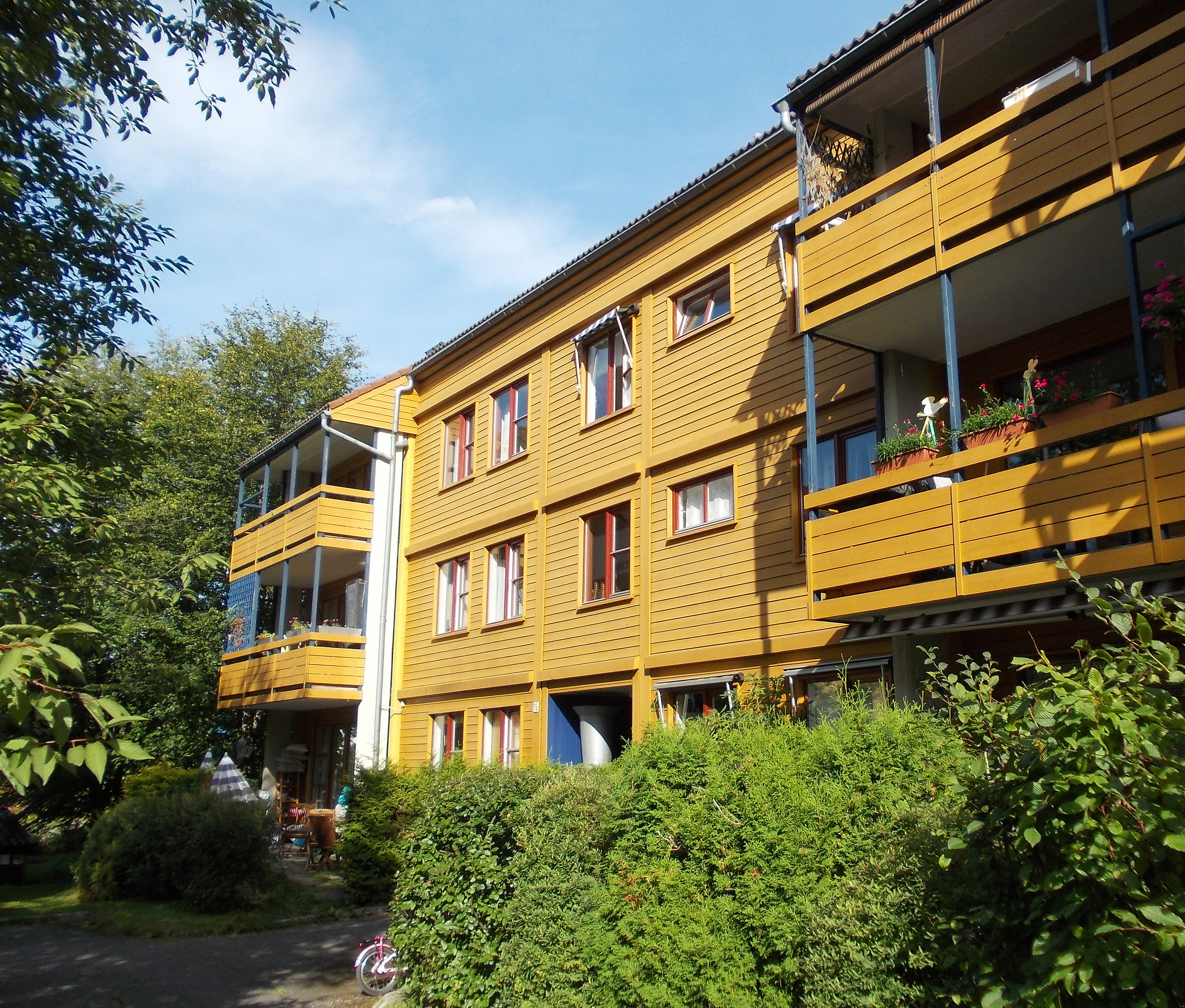 House at Skøyen in Oslo, where Anders Behring Breivik grew up (1982-1994)